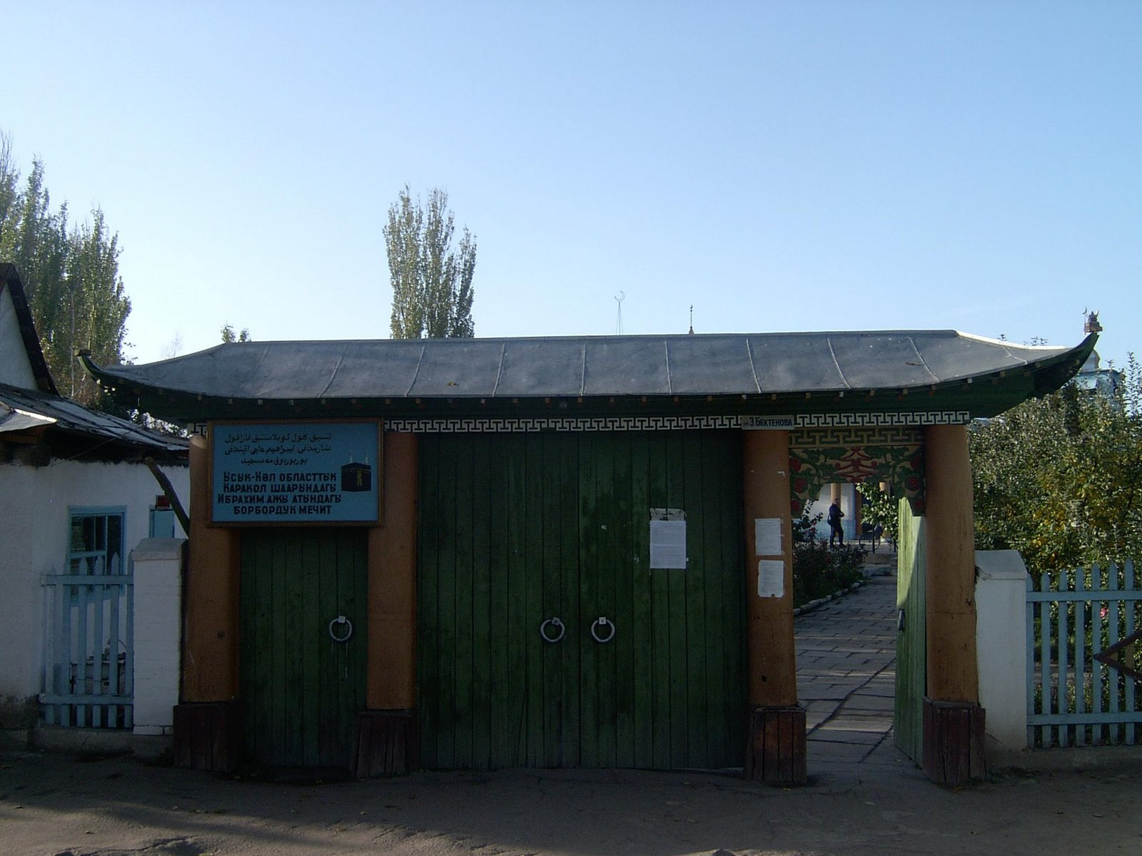 The front gate of the Dungan Mosque in Karakol, Kyrgyzstan. Upper text on the sign is a partially Uyghurized rendering of the mosque's Kyrgyz name into the Uyghur Arabic alphabet: Isiq-köl oblasttiq Qaraqol sharindaghi Ibrahim Haji atindaghi borborduq mäsjid. Lower text is Kyrgyz in Cyrillic script: Ysyk-Köl oblasttyk Karakol shaaryndagy Ibrakhim Ajy atyndagy borborduk mechit—'Central Mosque in the name of Ibrahim Hajji in the city of Karakol, Issyk-Kul oblast'. Кыргызча: Ысык-көл областтык Каракол шаарындагы Ибрахим ажы атындагы борбордук мечит.